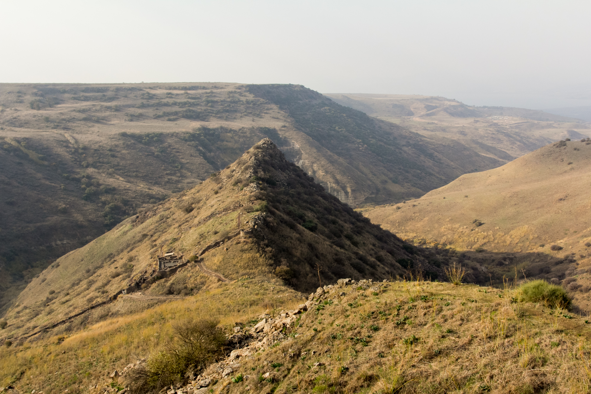 Ruins of the ancient city Gamla, on the Golan Heights